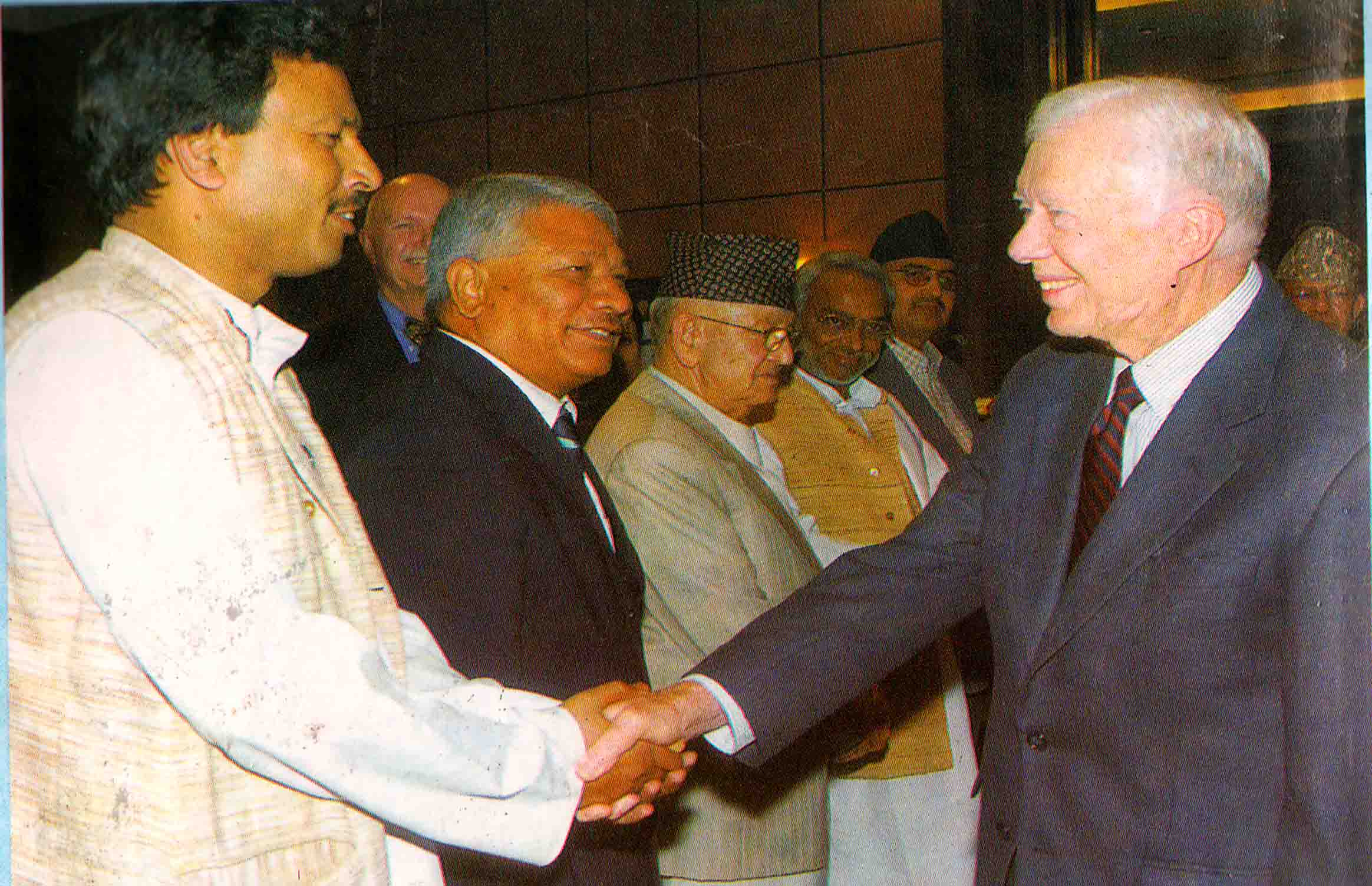 with president carter